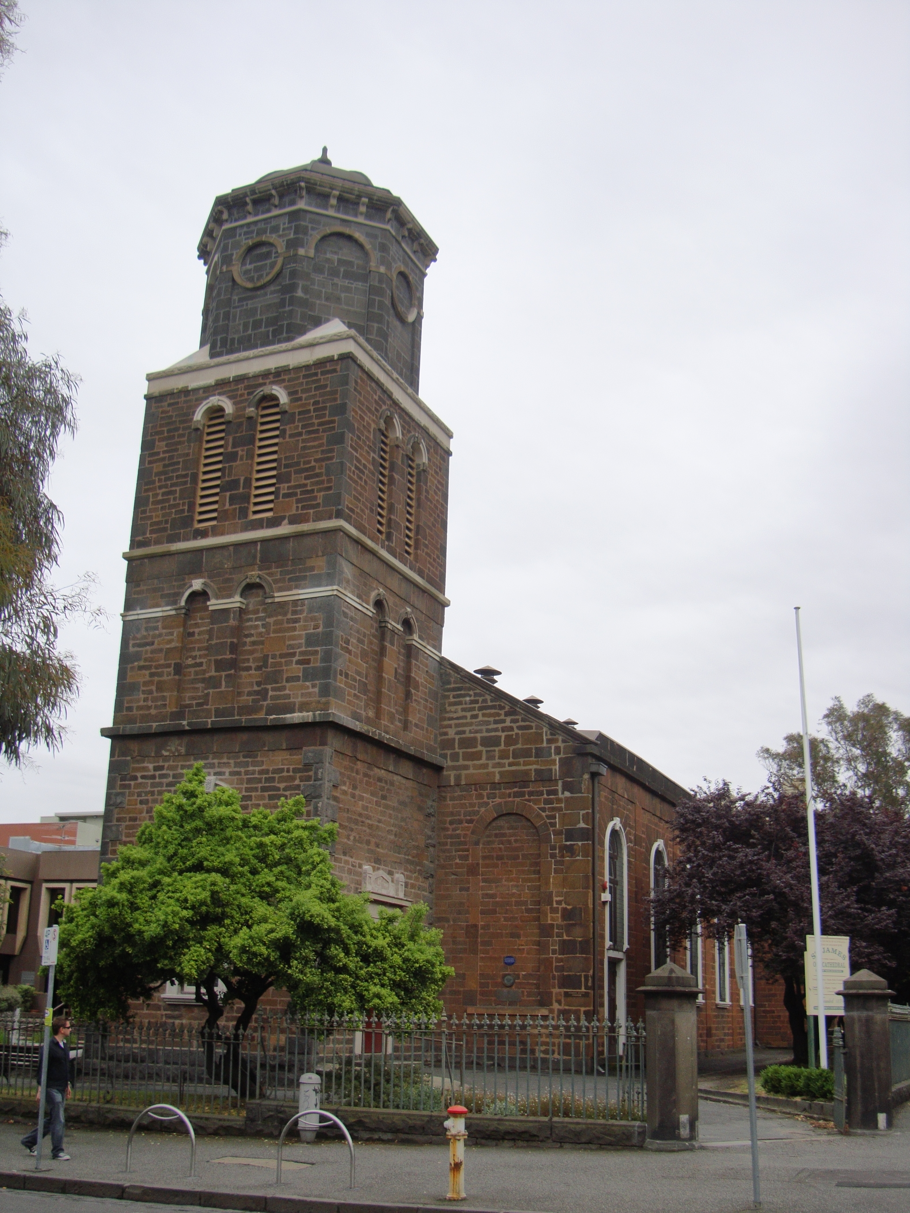 Photograph of St James Old Cathedral, Melbourne, Victoria, Australia